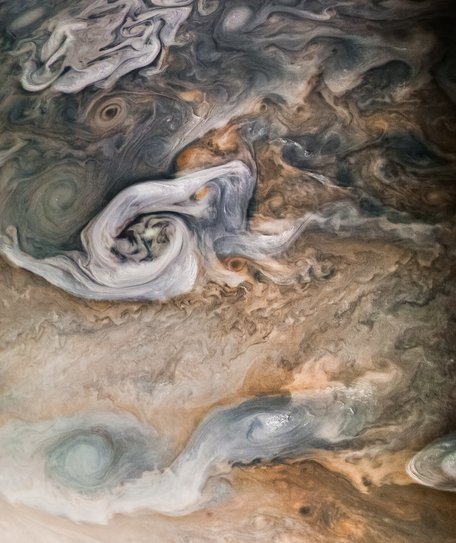 JNCE_2017297_09C00081_V01 NASA/JPL-Caltech/SwRI/MSSS/Kevin M. Gill